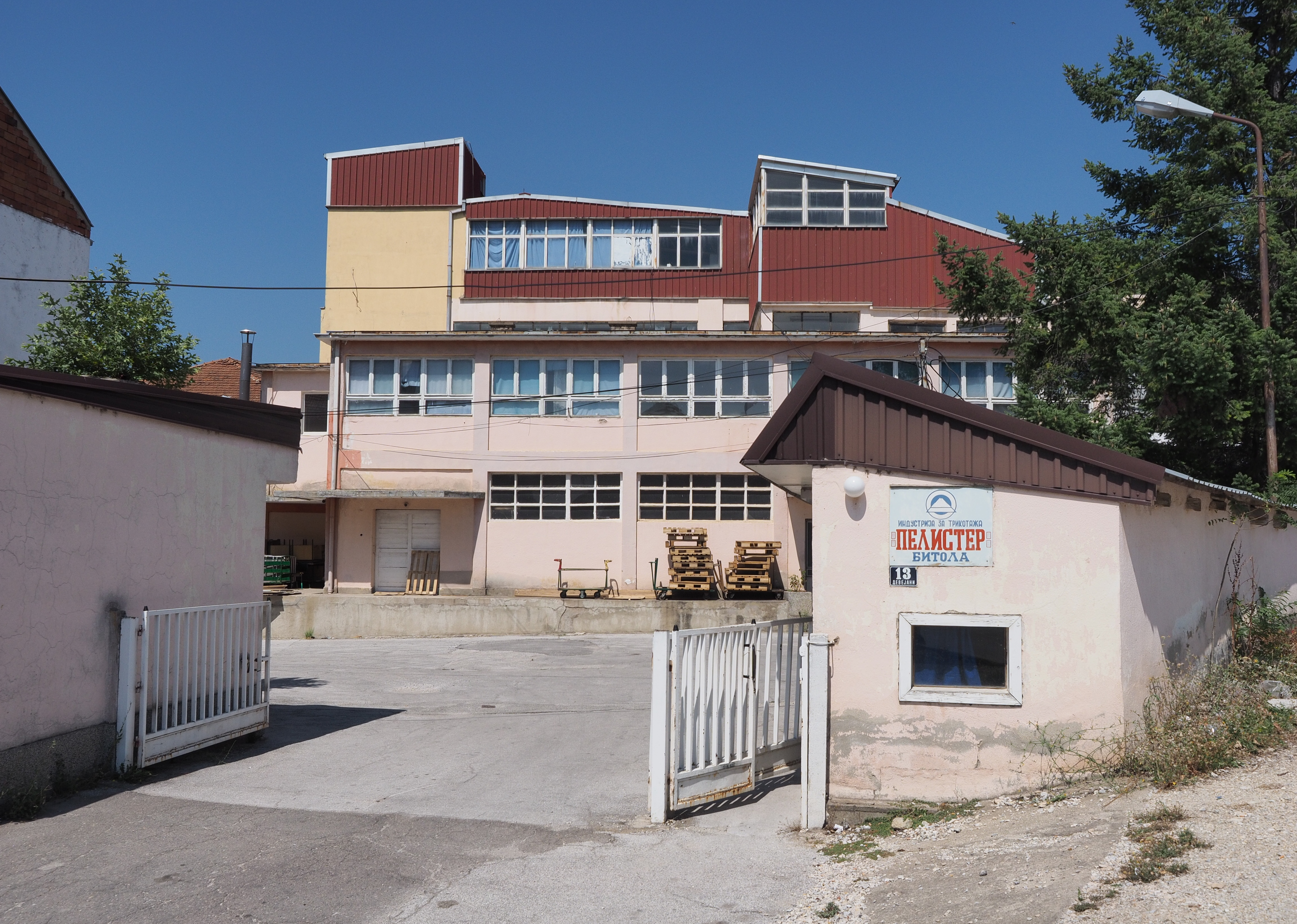 Trikotaža Pelister (Bitola, Macedonia)